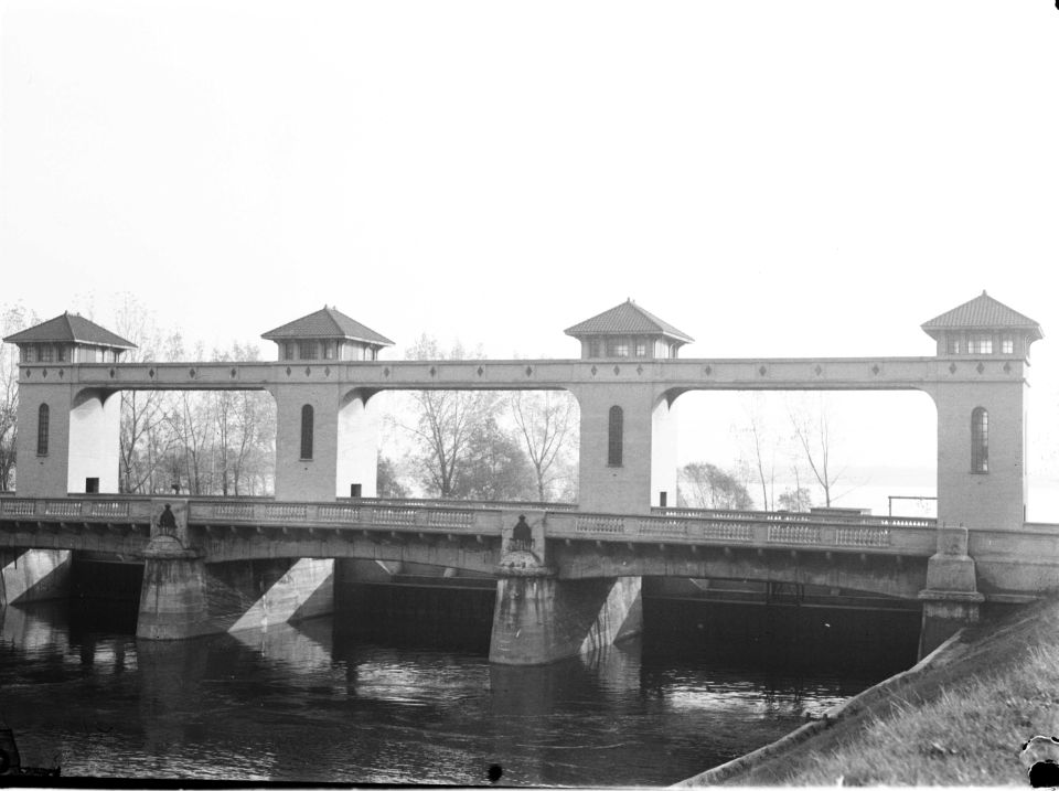 For documentary purposes the original description provided by BAnQ has been retained. Additional descriptive text may be added by Wikimedians with the wiki description = parameter, but please do not modify the other fields.